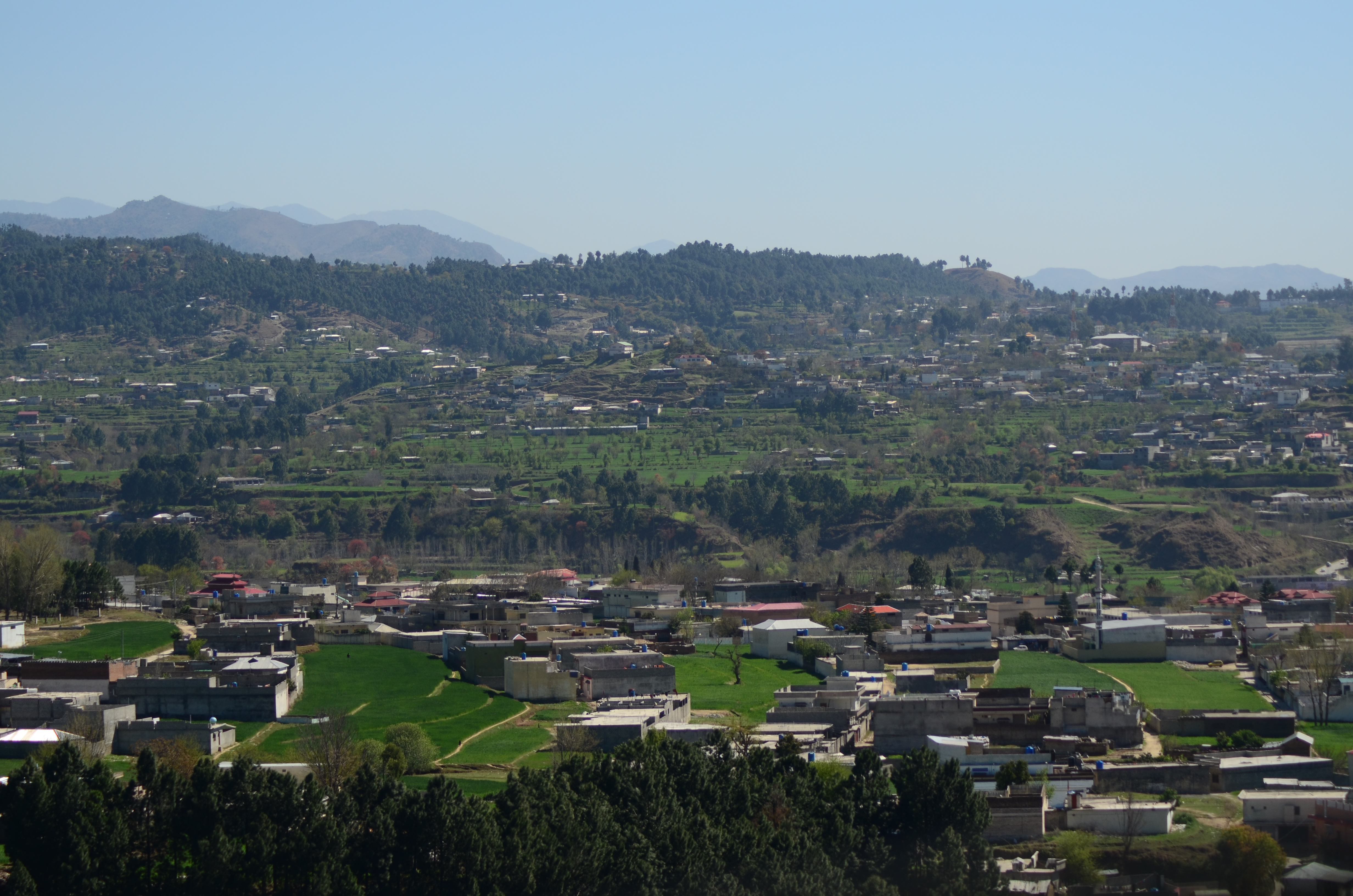 This was taken in Mansehra.